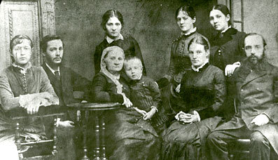 Zograf family, approximately 1880. Valentina Yurievna Zograf-Plaksina, Andrei Yurievich, Elizaveta Yurievna, mother Evdokia Ivanovna, Evgenii Konstantinovich, Aleksandra Yurievna Zograf-Dulova, Aleksandra Dmitrievna Shuckaya-Rachinskaya, Maria Yurievna Zograf, Konstantin Yurievich Zograf